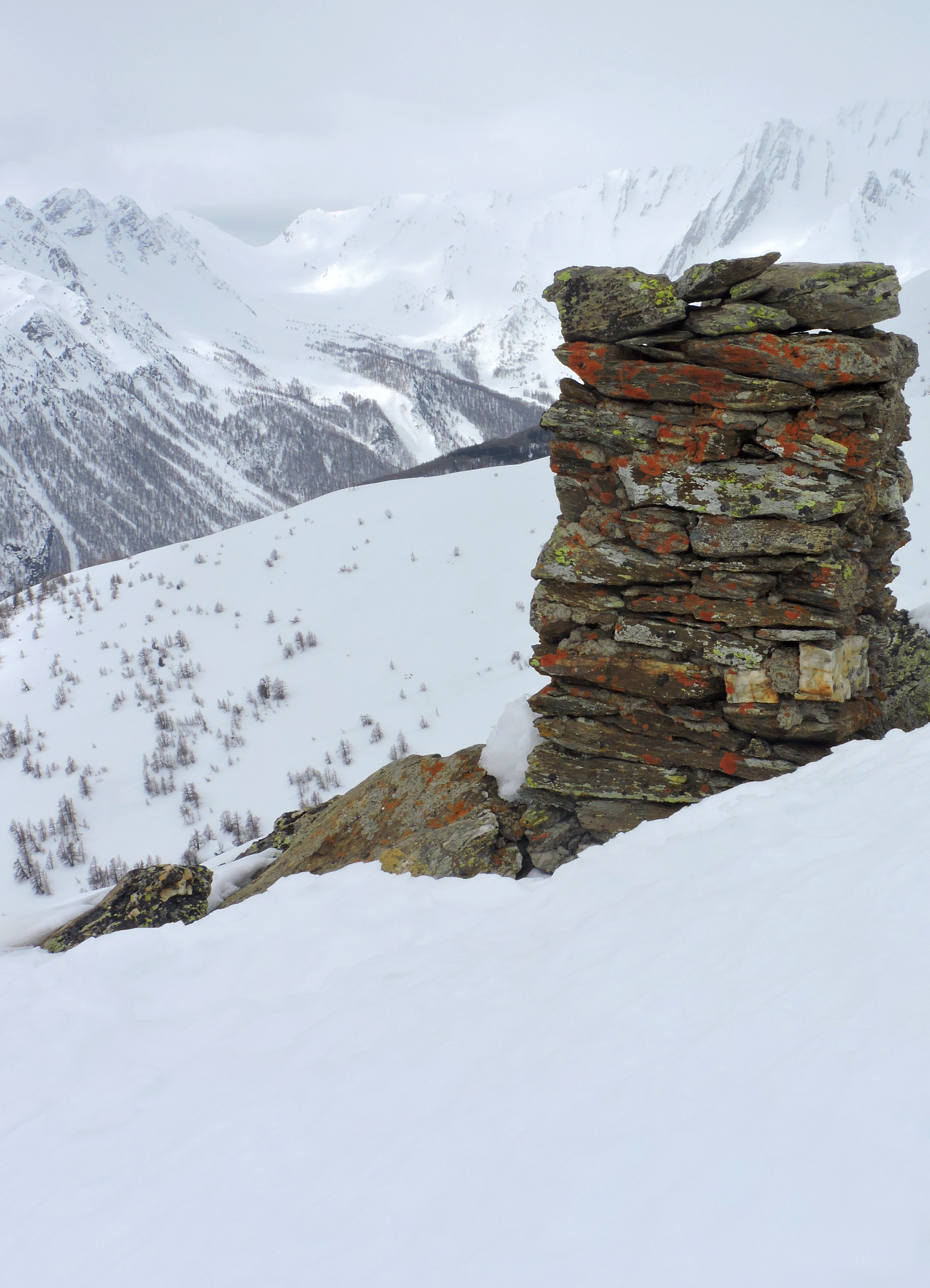 Cairn on Monte Paglietta (AO, Italy)